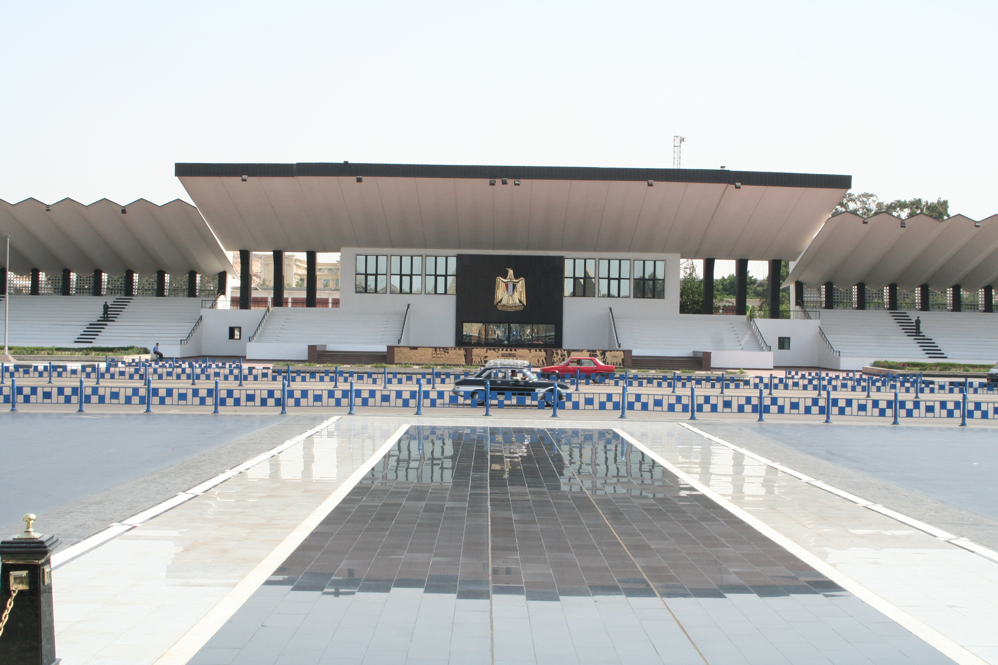 Tomb of the unknown Soldier, and Tomb of Anwar as-Sadat, in Nasr City, Greater Cairo.